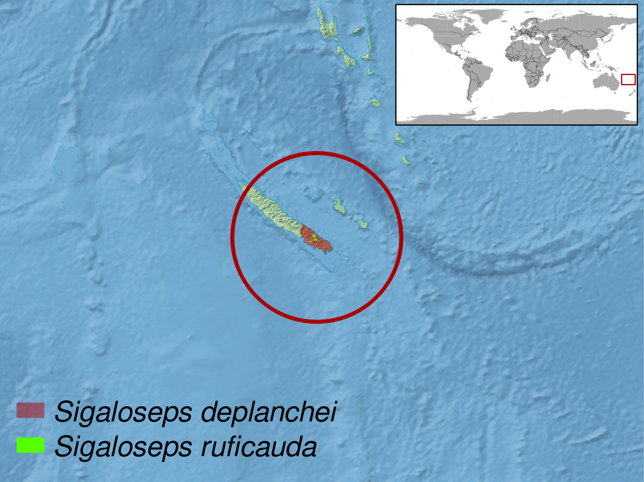 geographic distribution of Sigaloseps deplanchei and Sigaloseps ruficauda